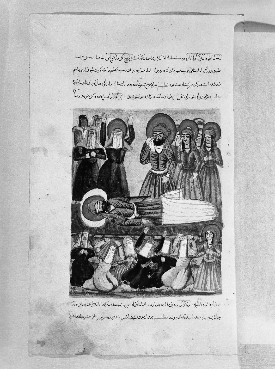 As suggested by the surrounding text in Persian prose, this painting may depict the funeral of Husayn, the third imam.